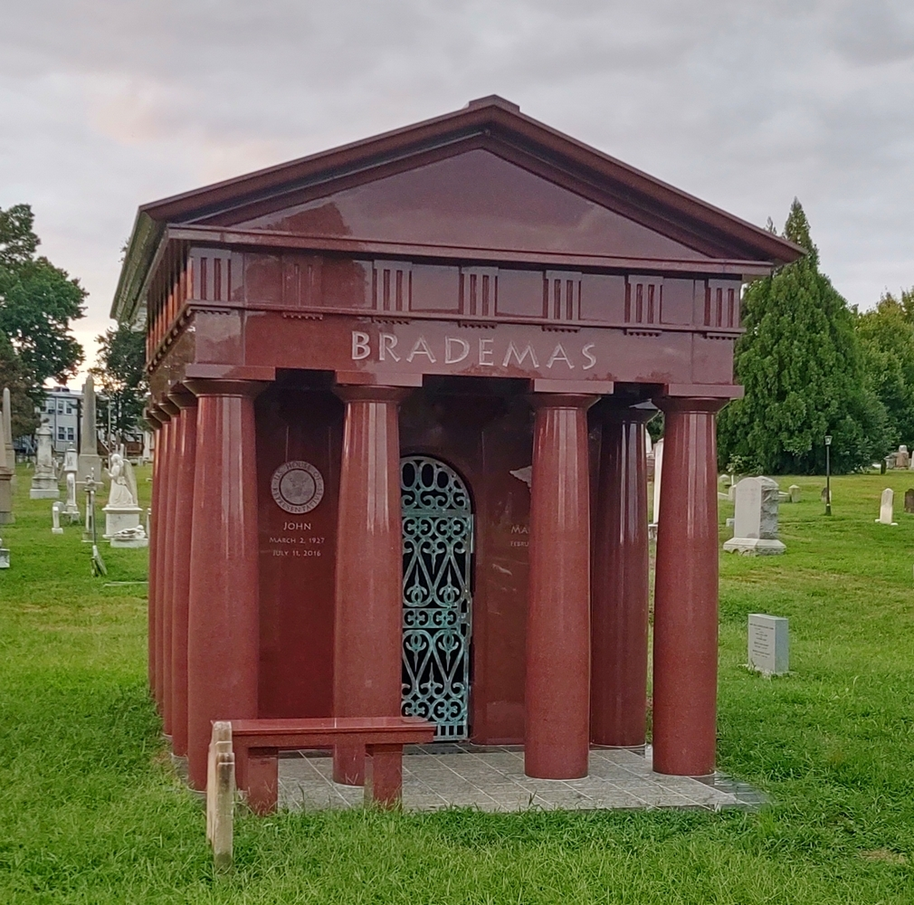 Mausoleum of American statesman and philanthropist John Brademus in Congressional Cemetery, Washington, DC.